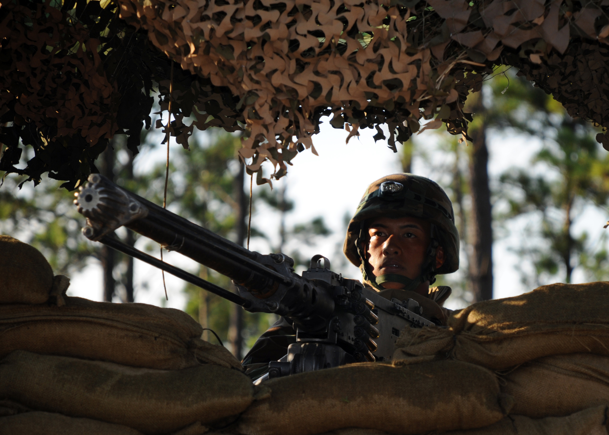 CAMP SHELBY, Miss. (June 22, 2008) Construction Electrician 3rd Class Jason Dingle, assigned to Naval Mobile Construction Battalion (NMCB) 7, mans a M2 machine gun at the entry control point for the Logistical Support Area during the battalion's unit field exercise (FEX). NMCB-7 is out in the field on its FEX to test its deployment readiness. U.S. Navy photo by Mass Communication Specialist 2nd Class Michael B. Lavender (Released)